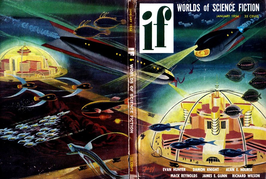 Wraparound cover for the January 1954 issue of IF